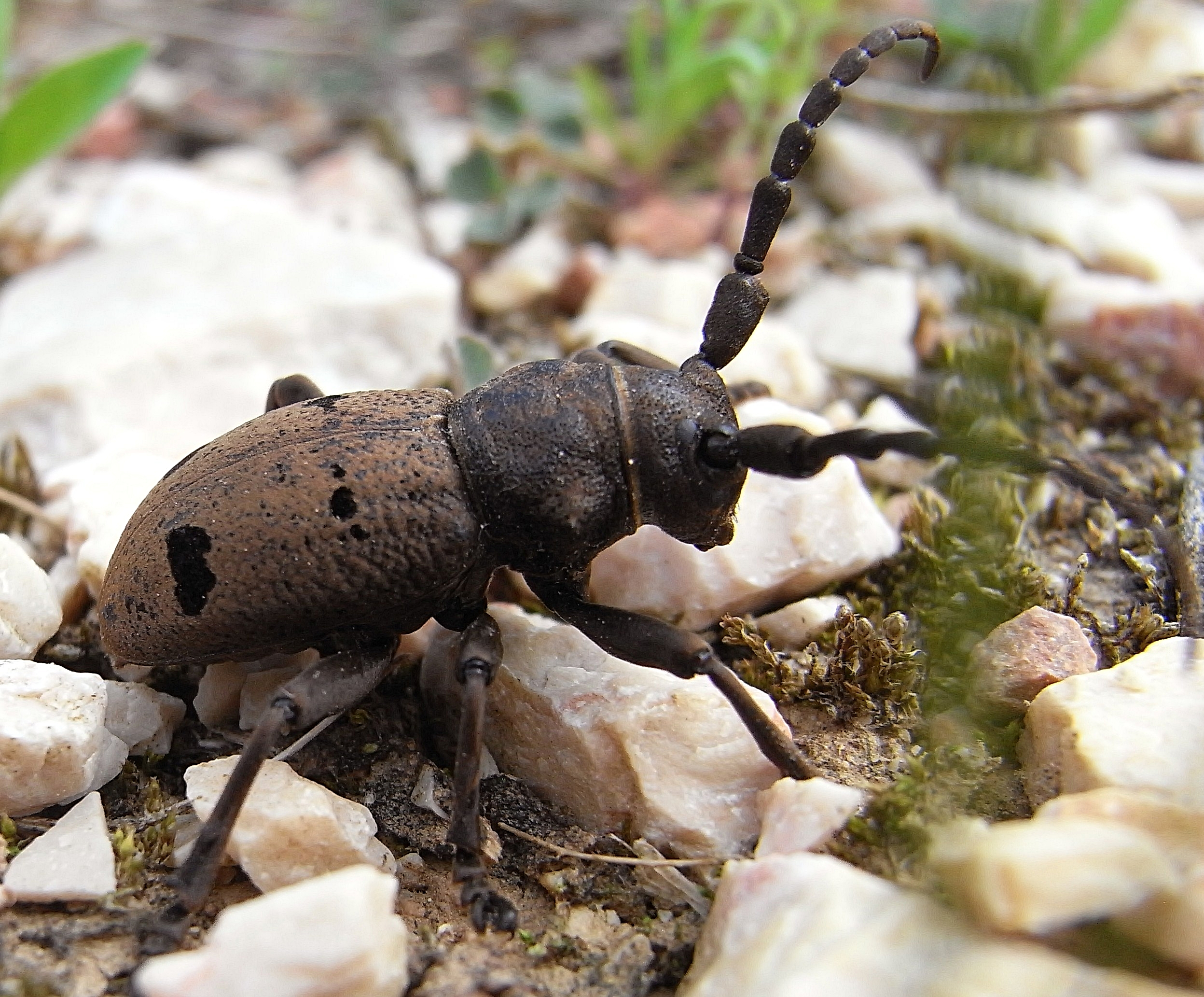 Herophila tristis syn. Dorcatypus tristis from Hungary, Villany-mountains, at 2010-05-05 Ricoh R8